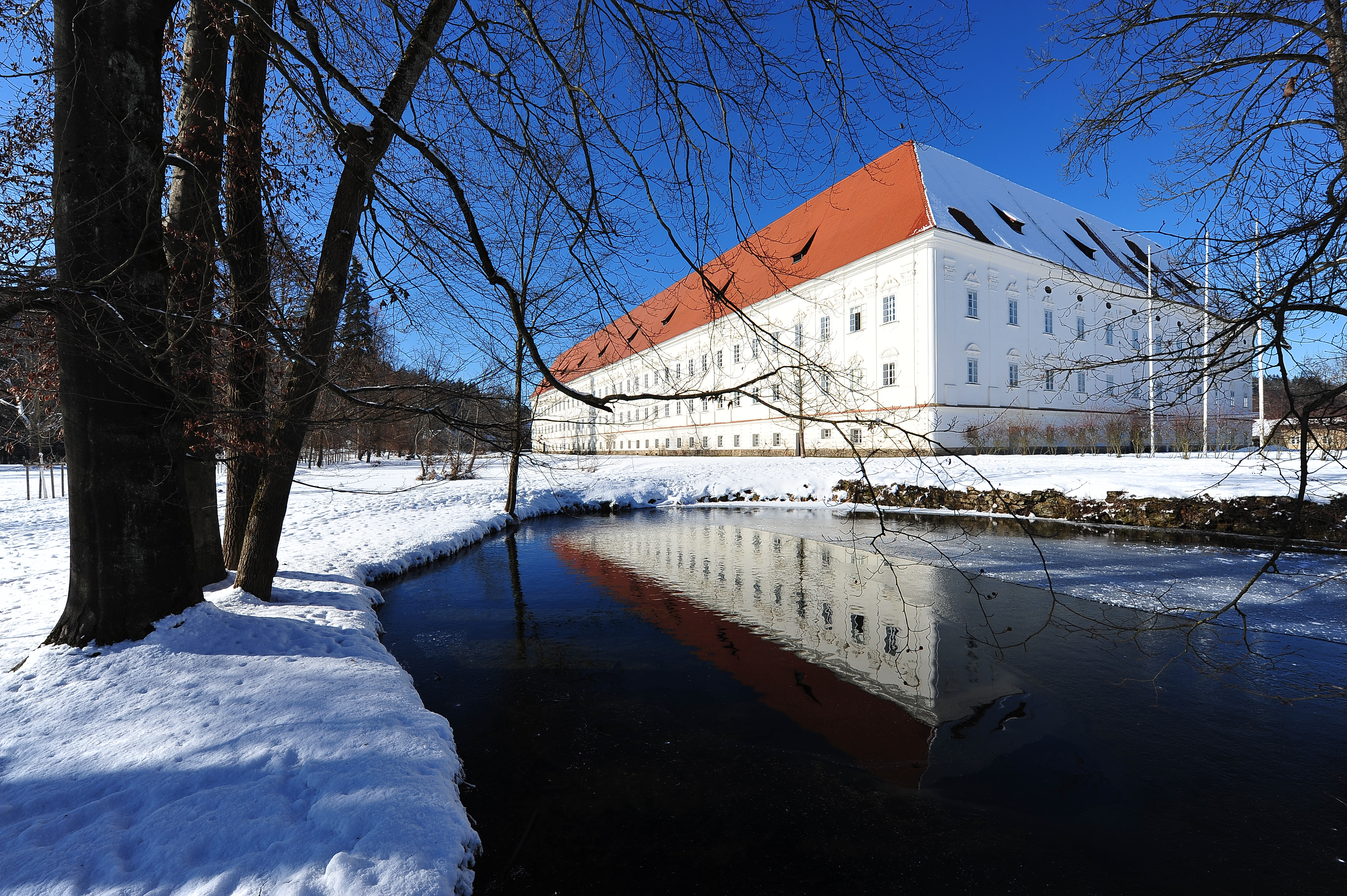 South east view at the cistercian monastery Viktring in Klagenfurt on the Lake Woerth, Carinthia, Austria